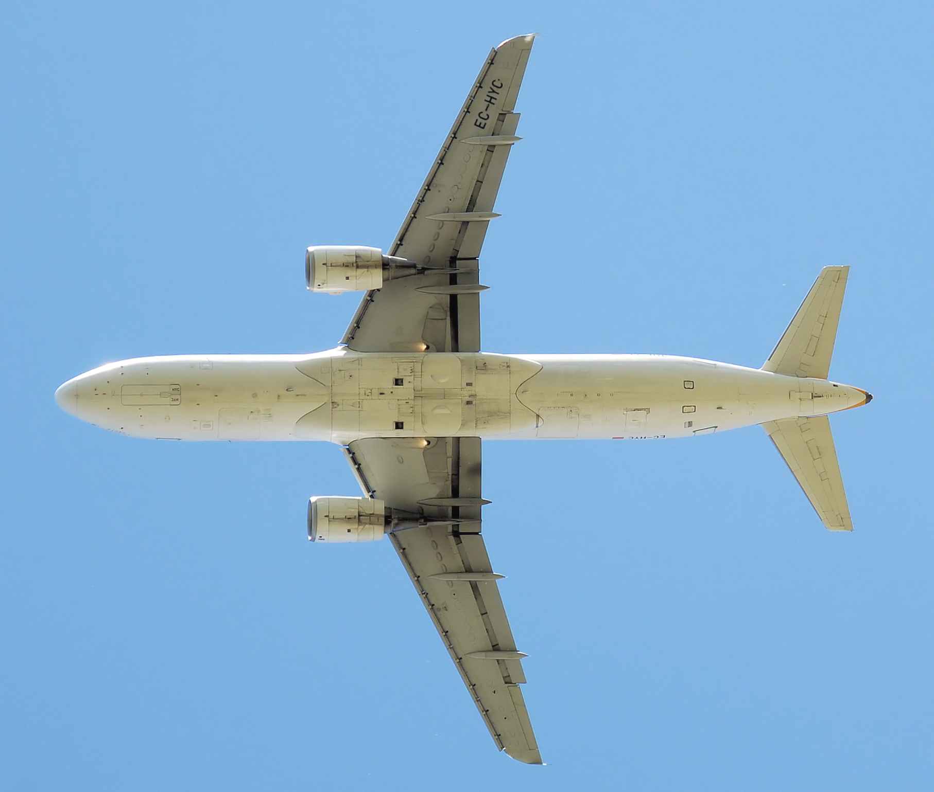 Iberia Airbus A320-200 (EC-HYC) takes off from London Heathrow Airport, England. The undercarriages have completely retracted.